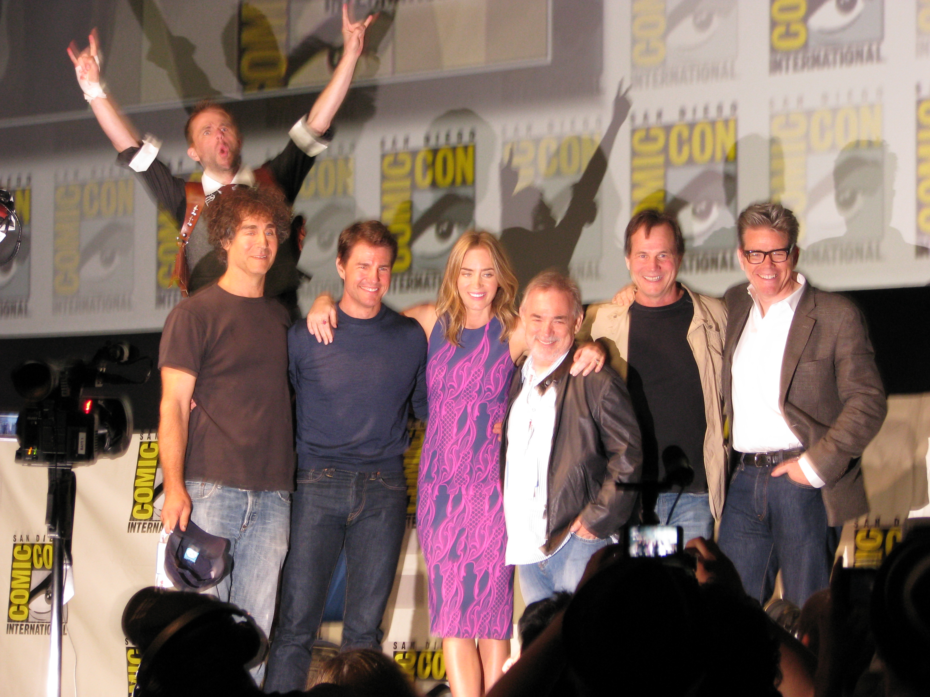 Chris Hardwick photobombing the Edge of Tomorrow panel with [from left to right] director Doug Liman, Tom Cruise, Emily Blunt, producer Erwin Stoff, Bill Paxton, and screenwriter Christopher McQuarrie